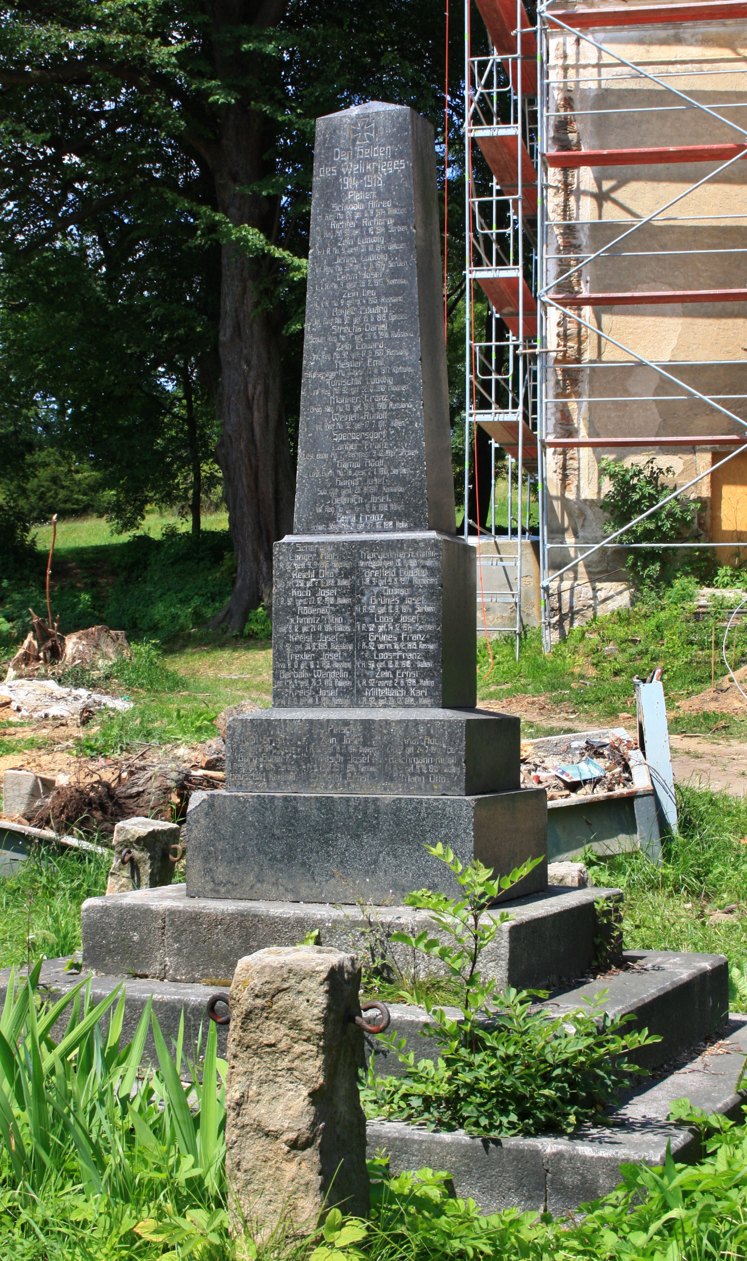 World War I memorial at Blatno, Czech Republic